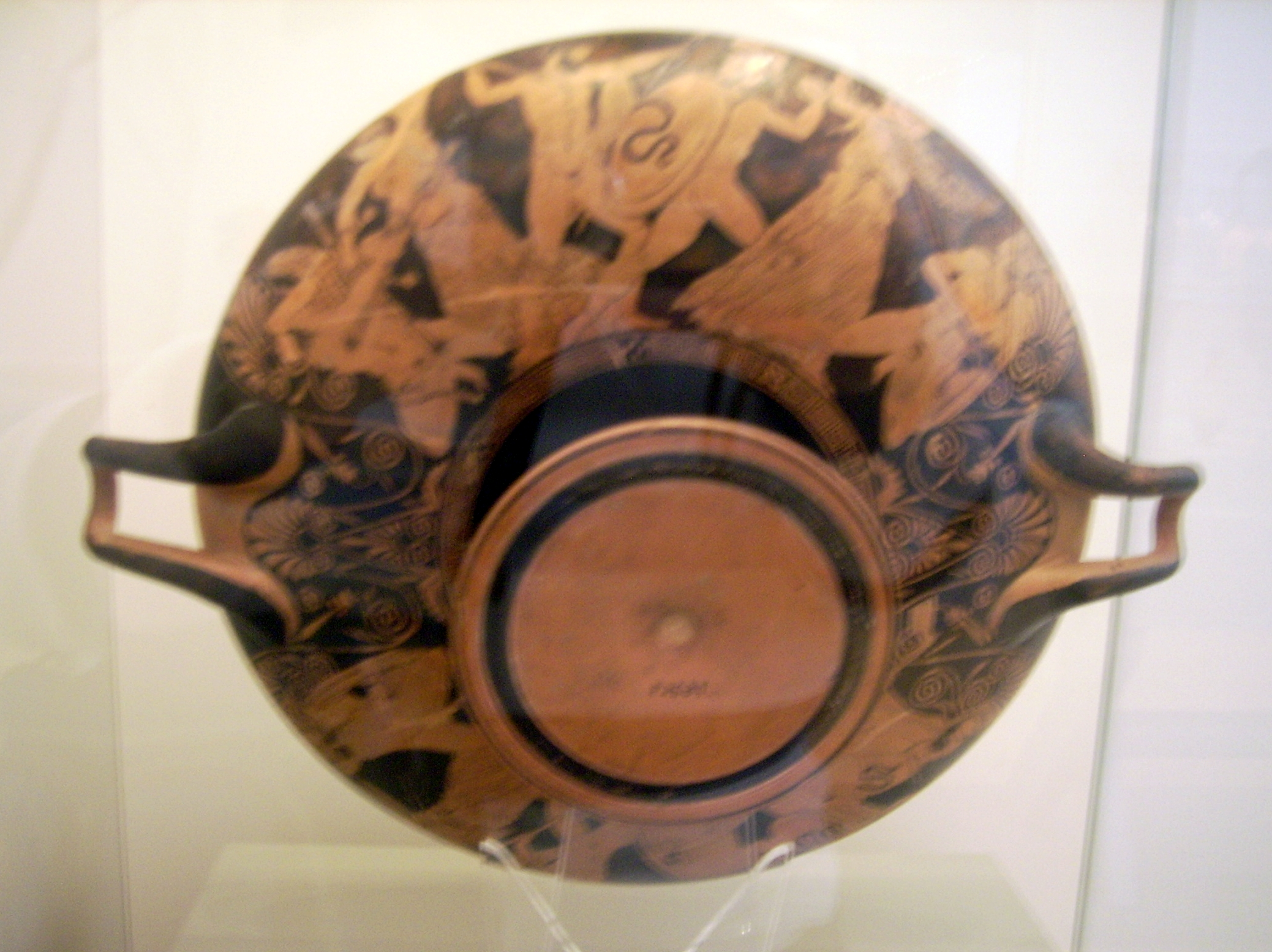 Depiction of the gigantomachy on the outside of a kylix. Berlin, Antikensammlung.